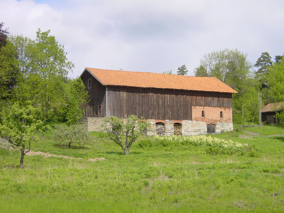 Barn of Brønnøya farm, Asker, Norway